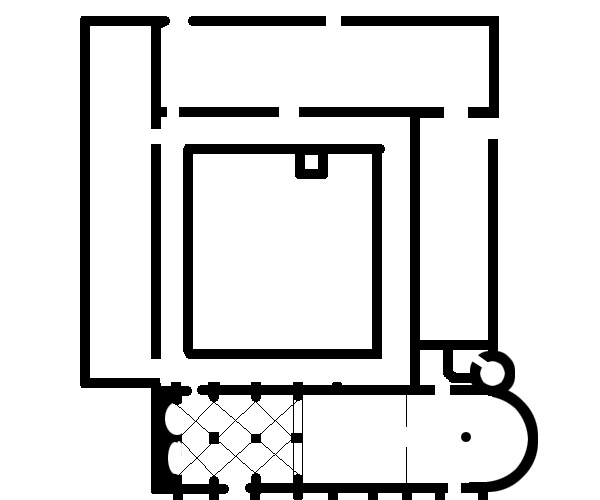 former Premonstratensian monastery Barthe, floor plan.